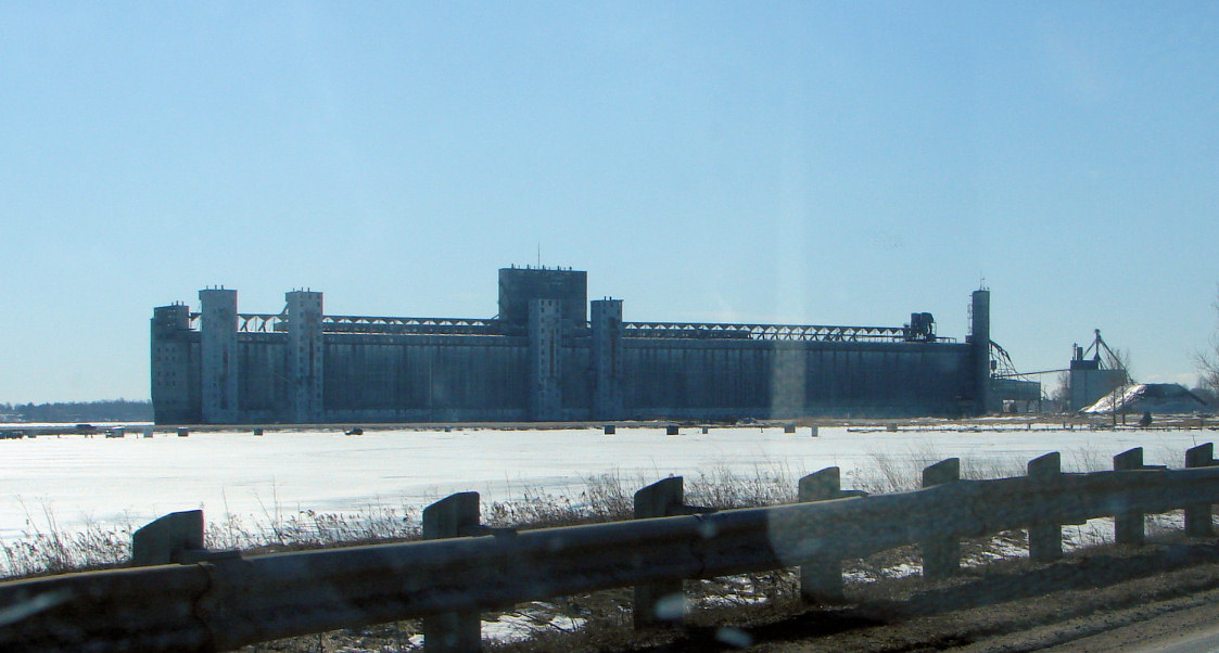 Port of Prescott in Edwardsburgh/Cardinal Township, Ontario, Canada